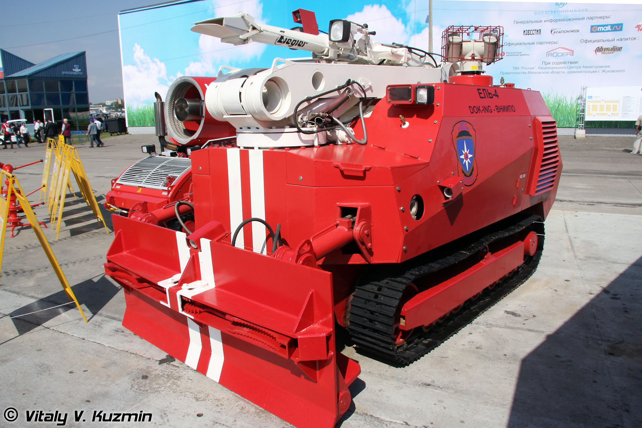 Unmanned firefighting vehicle El-4 - MAKS-2009